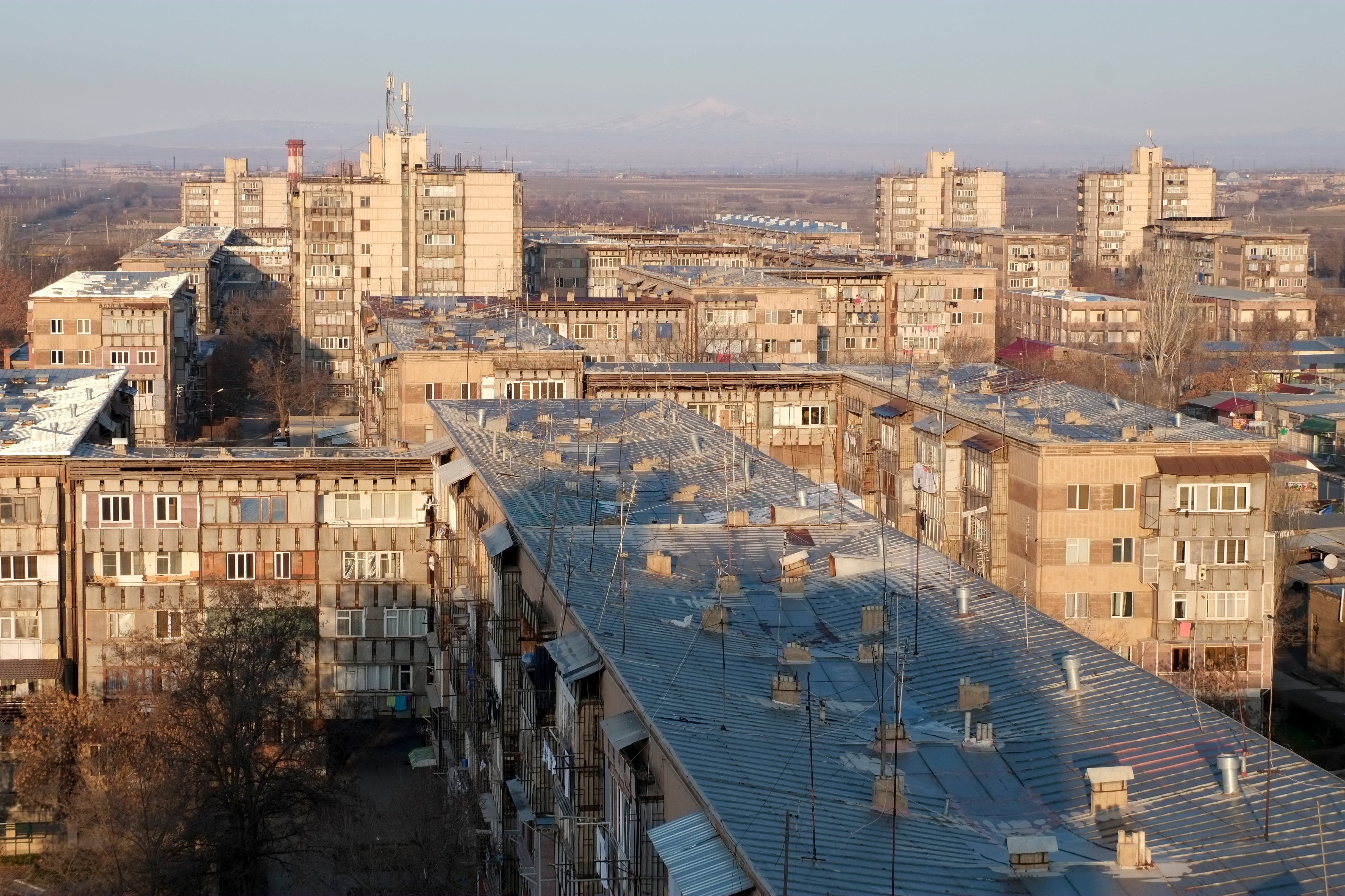 photo by Katharina Roters